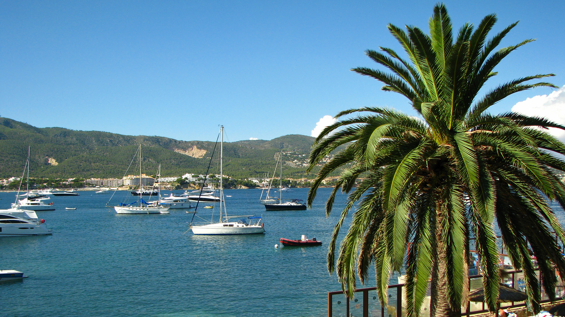 Mallorca, Palmanova in 2010